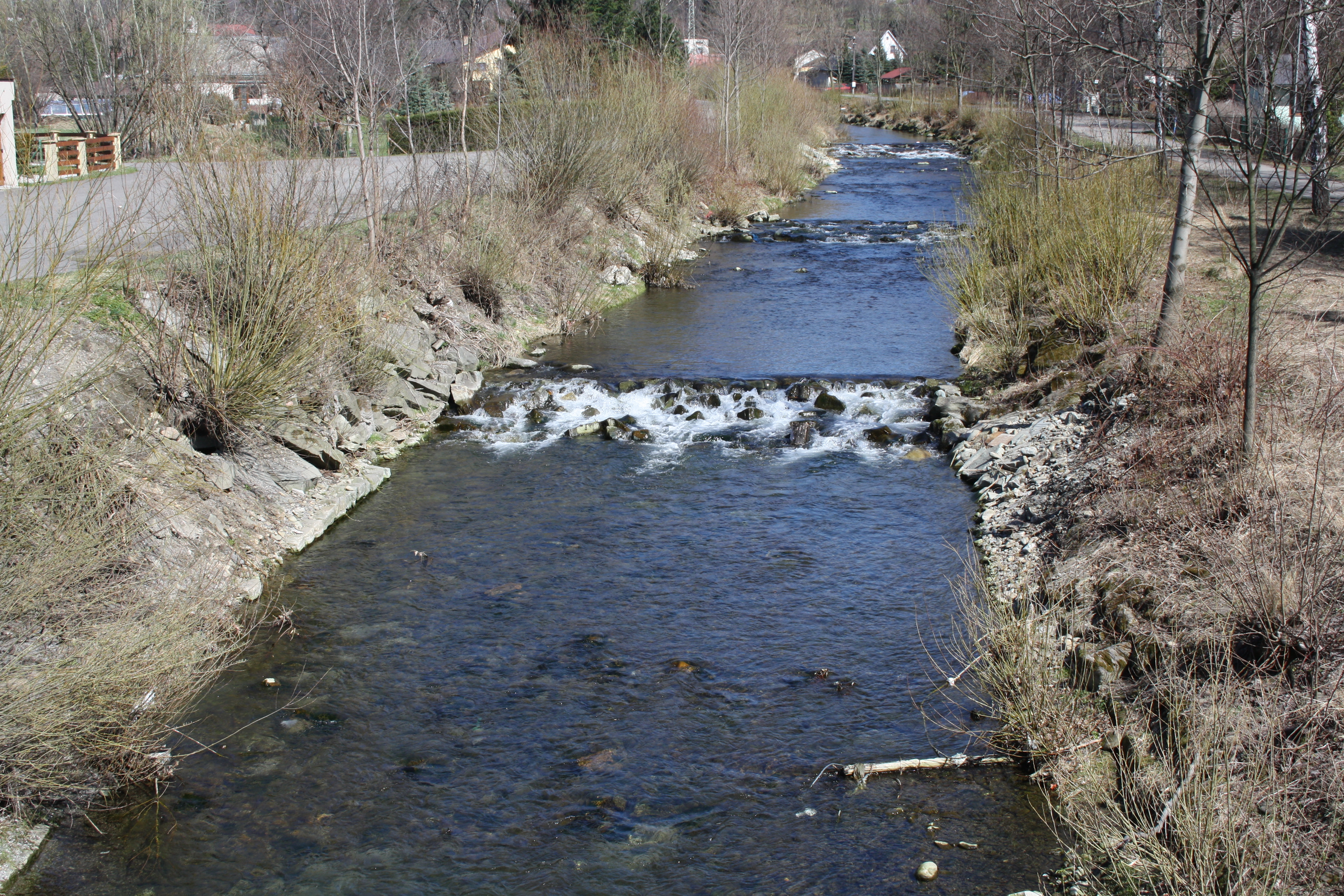 Hluchová stream. Bystřice, Frýdek-Místek District, Moravian-Silesian Region, Czech Republic This photograph was taken with a DSLR from WMCZ's Camera grant.